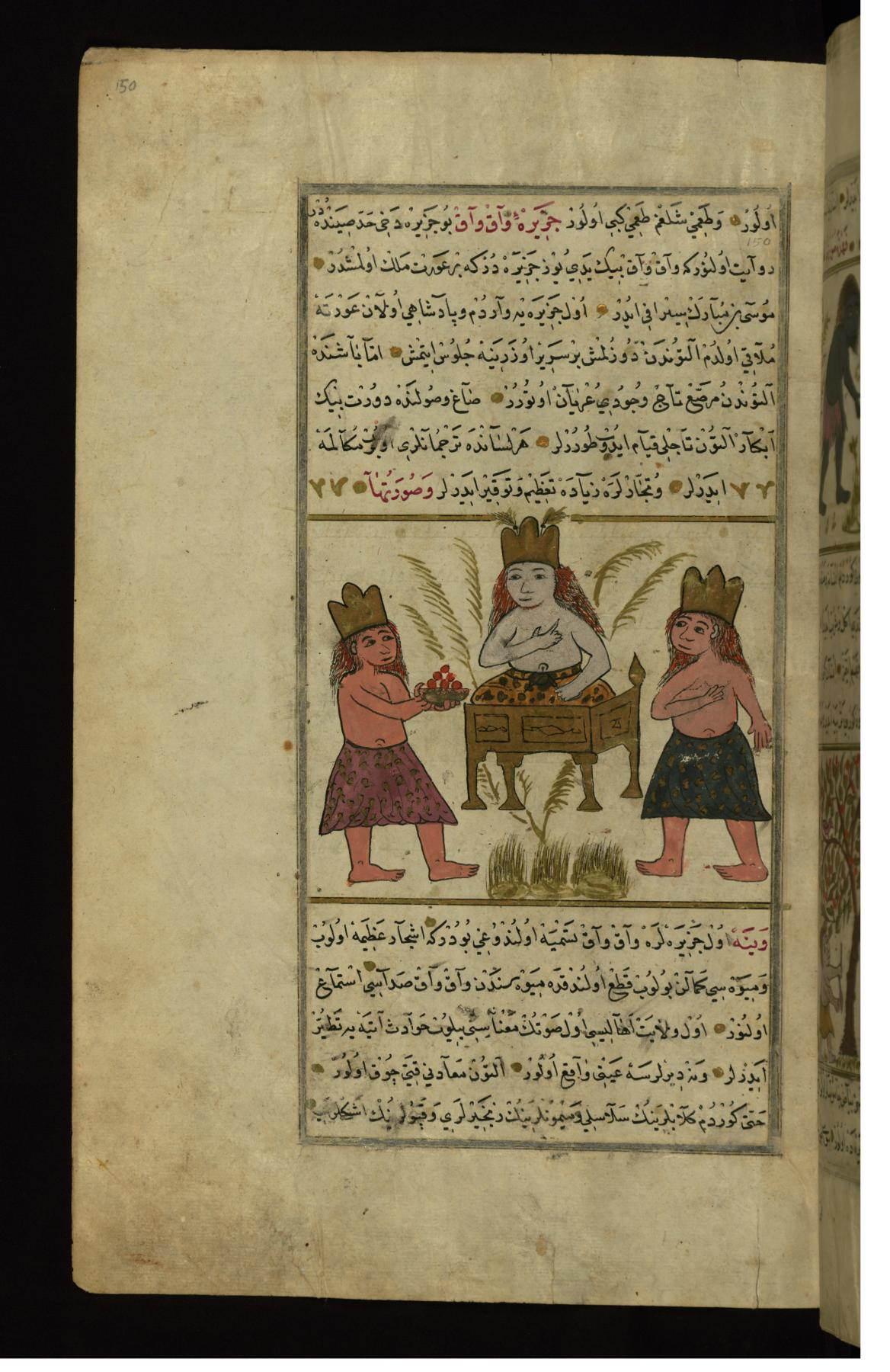 This folio from Walters manuscript W.659 depicts the Queen of the island of Vaqvaq.